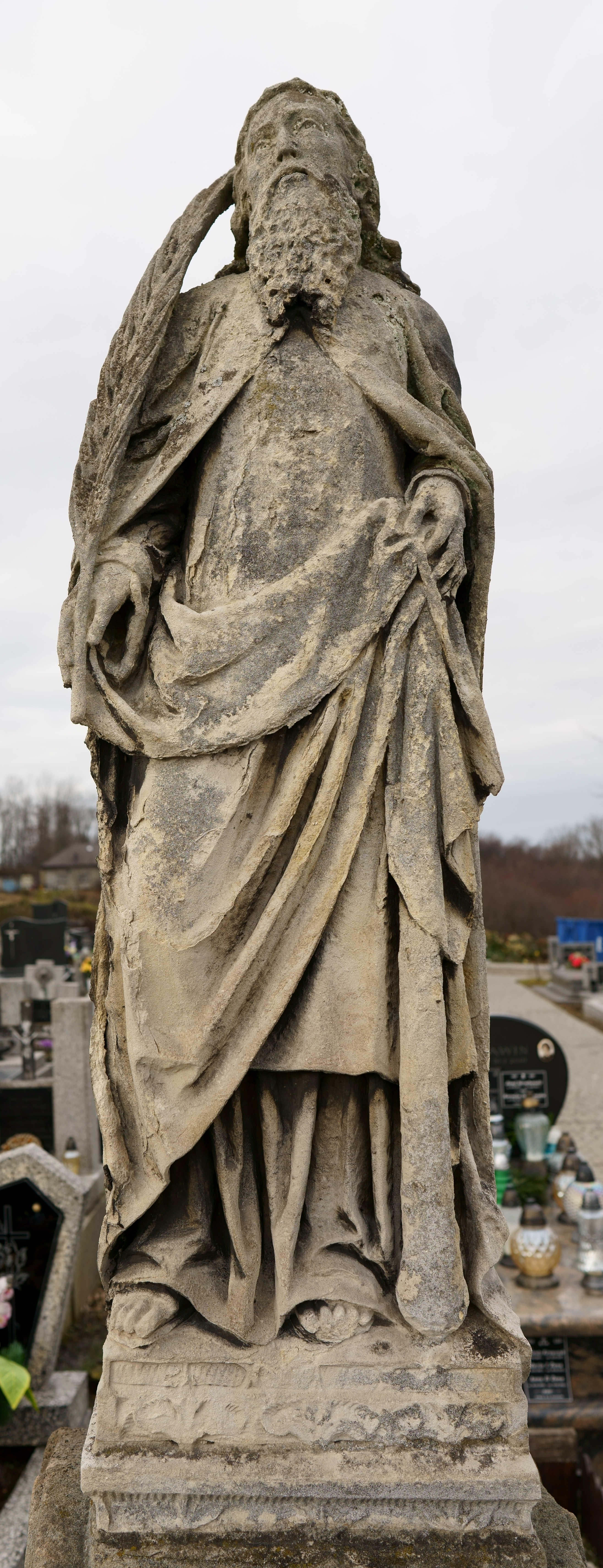 Tombstone monument Tadeusz Ożóg Mogilany